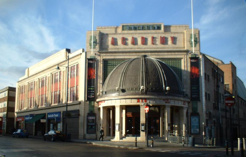 Brixton Academy, London; a music and theatre venue.